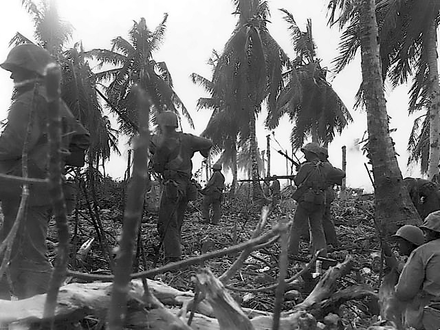 Closing in. Marine line of riflemen with bayonets on their weapons, crawls forward foot by foot as they clean up Eniwetok atoll in the final minutes of the battle.